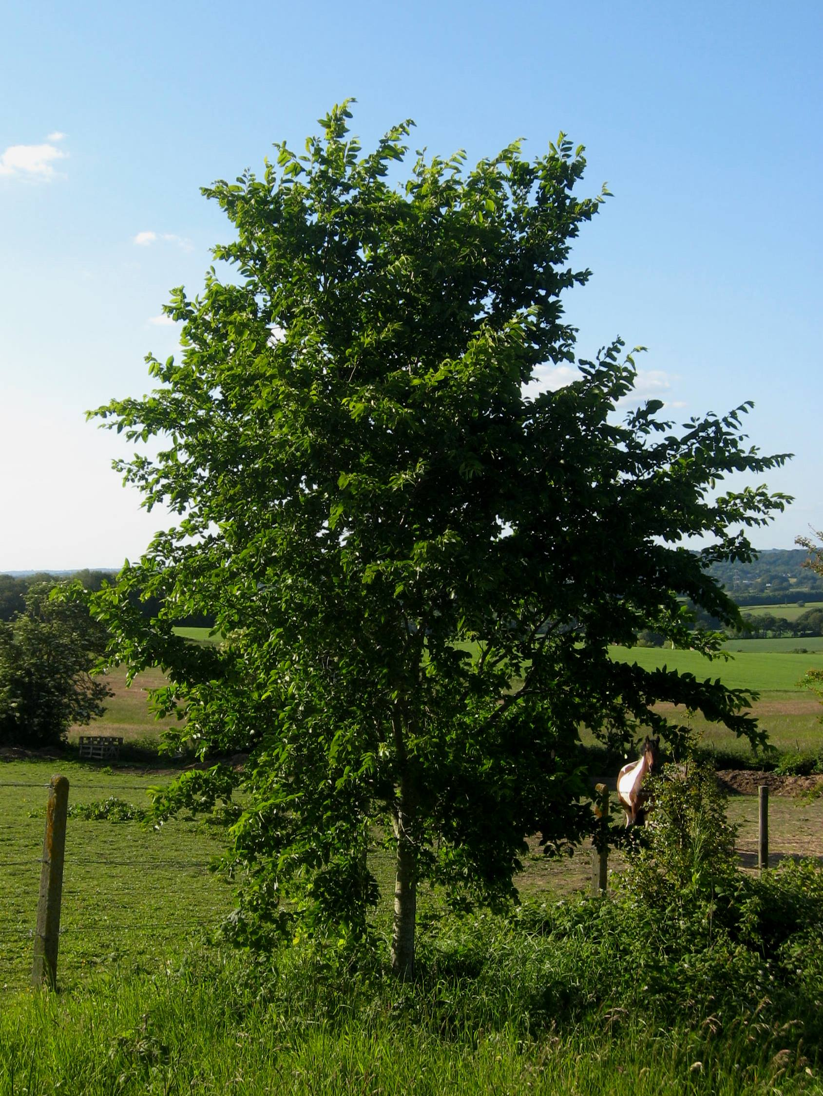 Photo of elm hybrid cultivar Ulmus 'Plinio', aged 12 years, growing on chalk, Ports Down, UK